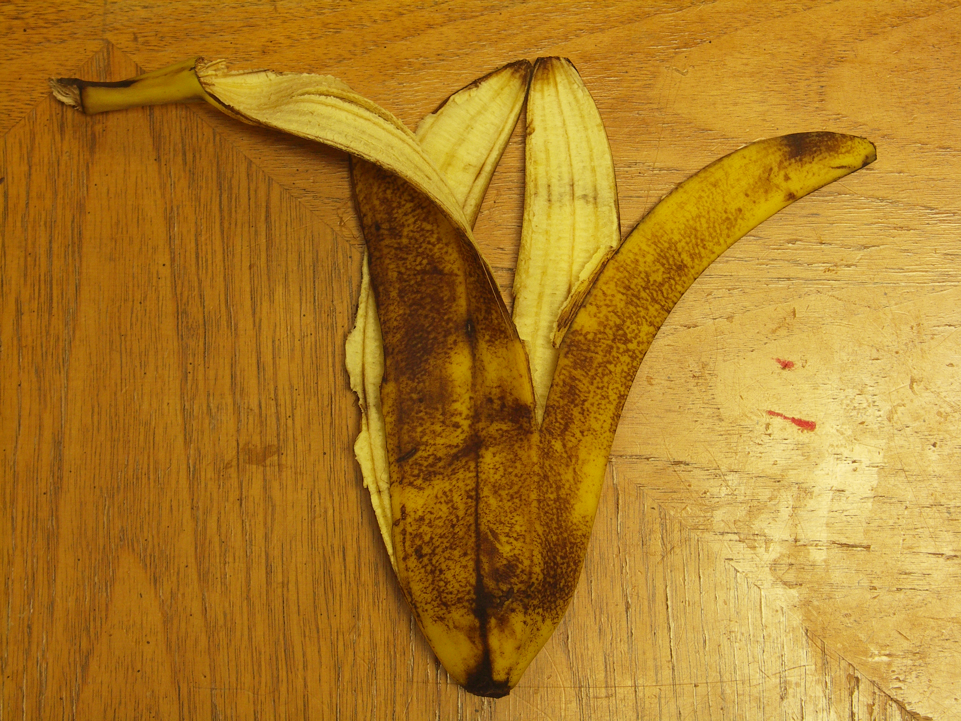 I took this picture randomly one day.